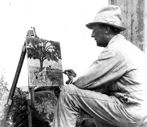 Swedish artist Torsten Palm 1885-1934